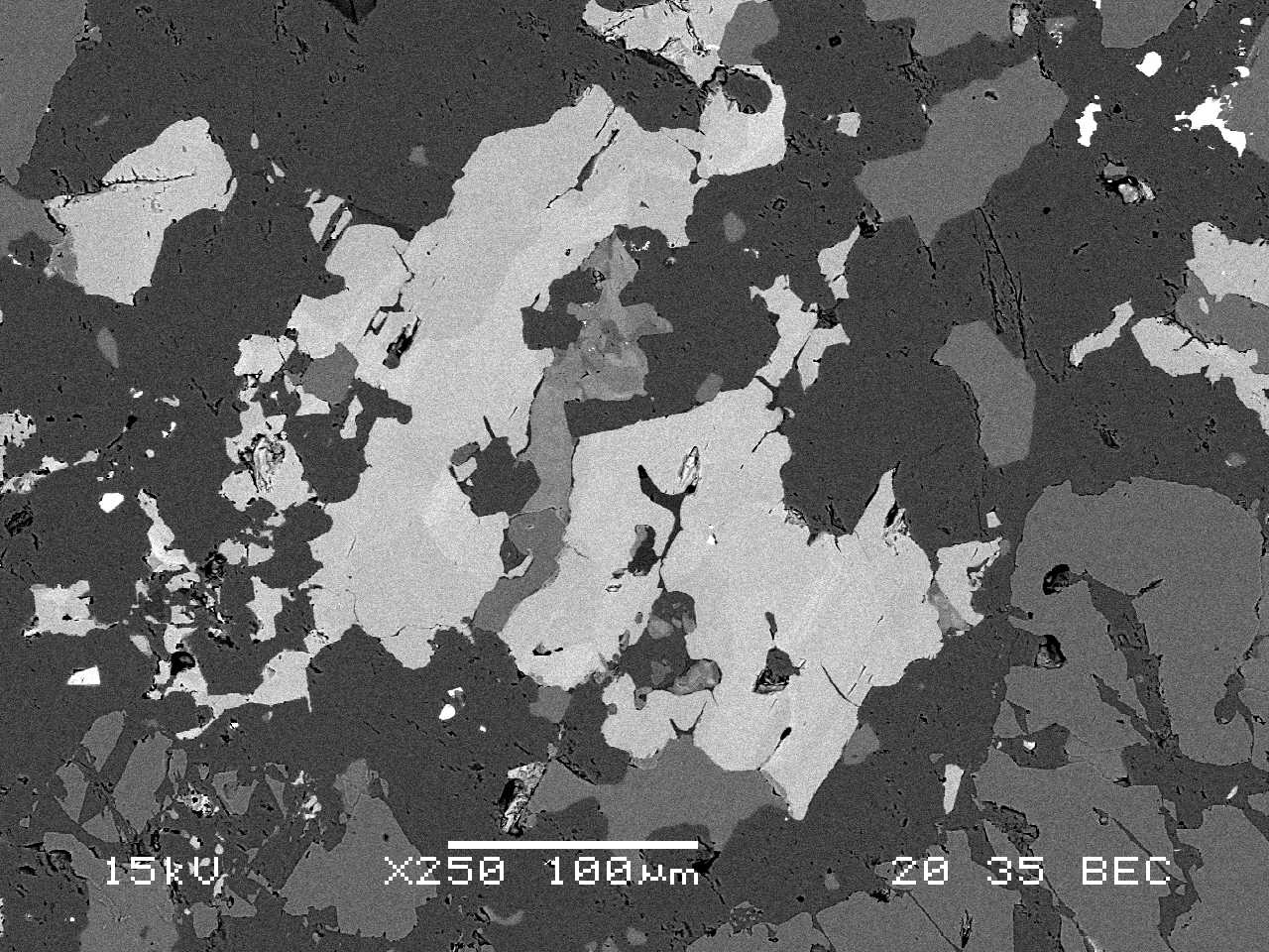 Abuite SEM image